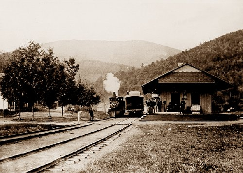 A picture of the Big Indian Railroad Station of the Ulster and Delaware Railroad at Big Indian, New York.